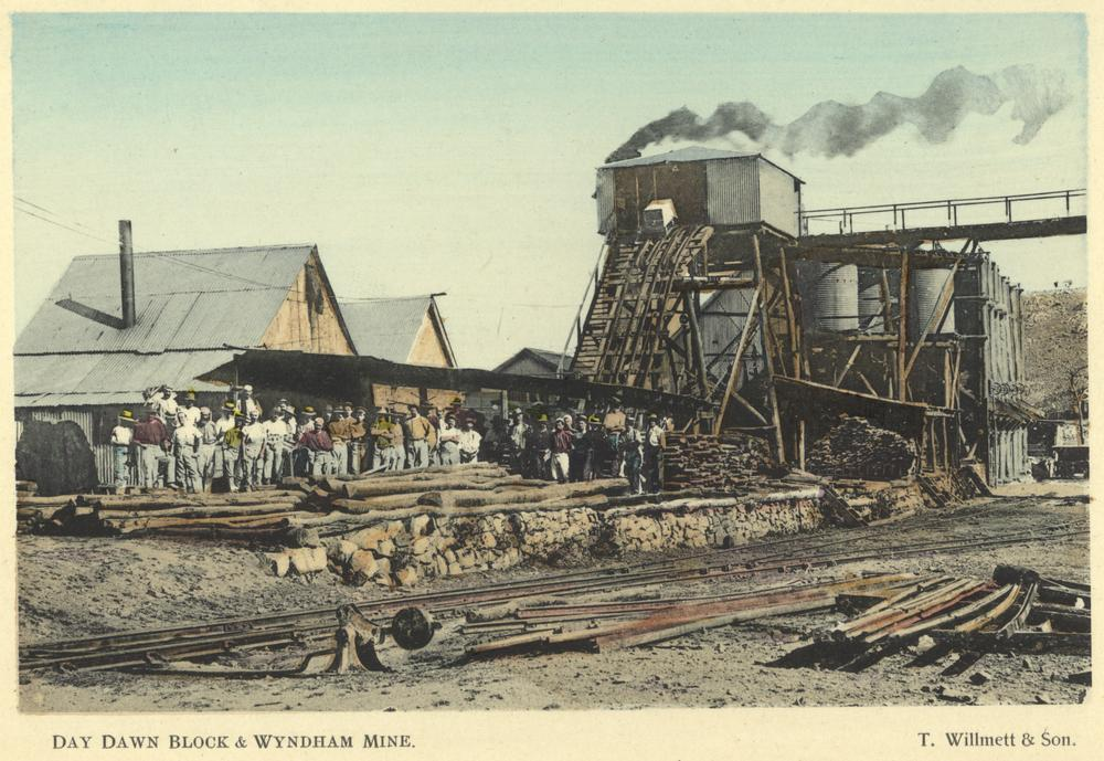 Day Dawn Block and Wyndham Mine, Charters Towers, 1904. Due to the Gold boom between 1872 and 1899, Charters Towers operated the only Stock Exchange outside of a capital city. During this period, the population was approximately 27,000, making Charters Towers, Queensland s largest City outside of Brisbane. Today the main industries are mining and beef cattle. There are also several world class boarding schools in the area. This is a photograph taken from a small album of hand coloured photographs about Charters Towers, including some mines, published by T. Willmett & Son, Charters Towers in 1904.